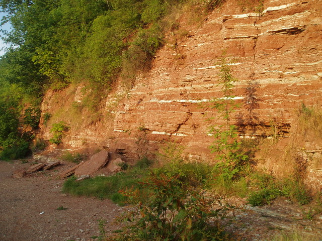 Cliffs at the south end of Gunthorpe weir The village of Gunthorpe gives its name to the local formation of red Triassic mudstones. The white bands are gypsum.